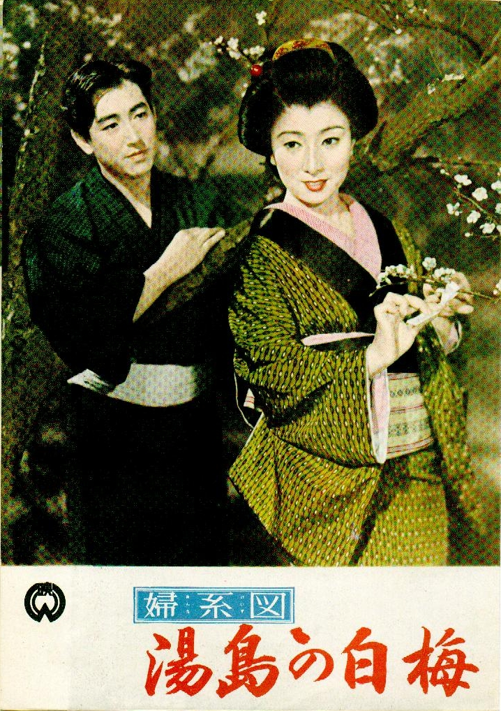 Movie poster for 1955 Japanese movie (婦系図 湯島の白梅 Onna Keizu Yushima no Hakubai).